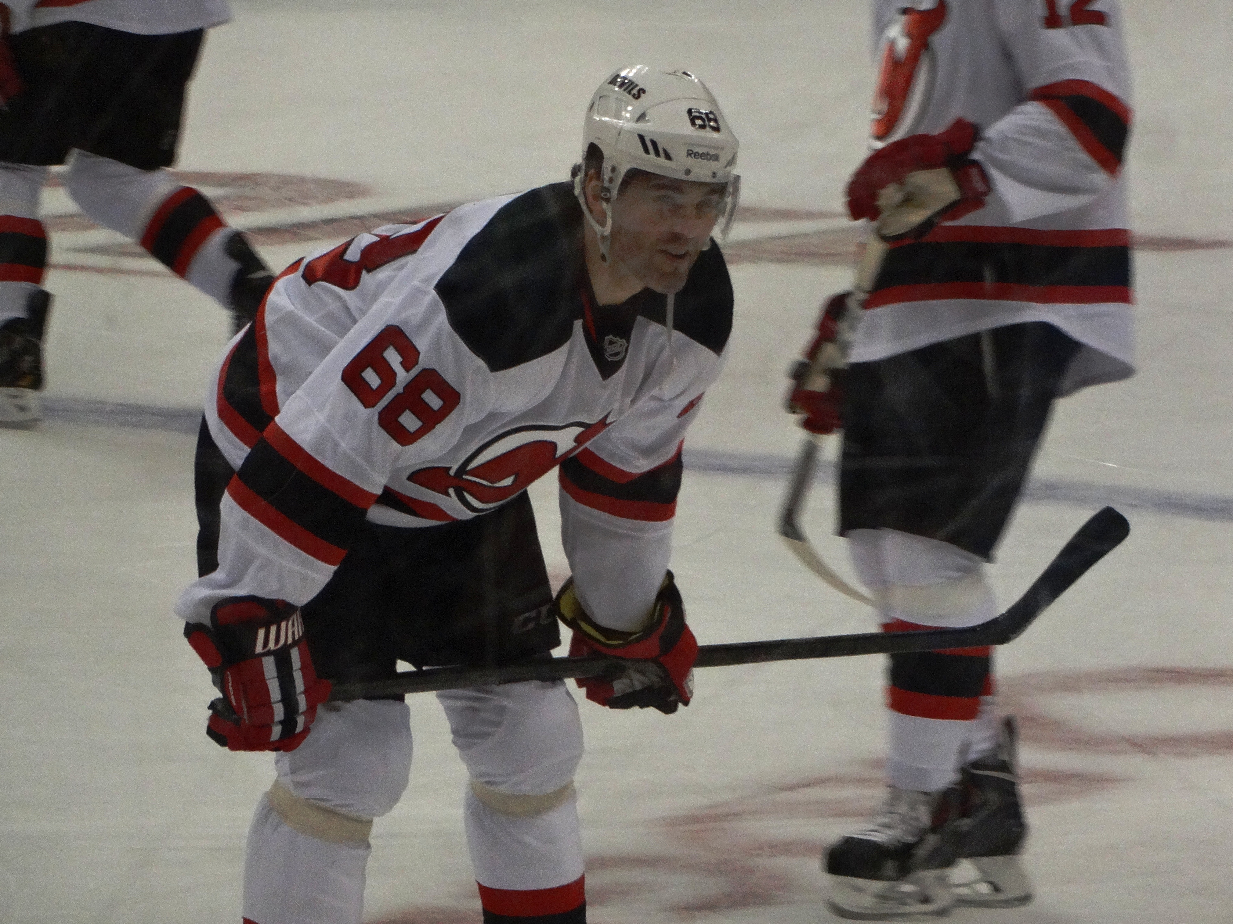 NJ @ Van, 08-Oct-2013